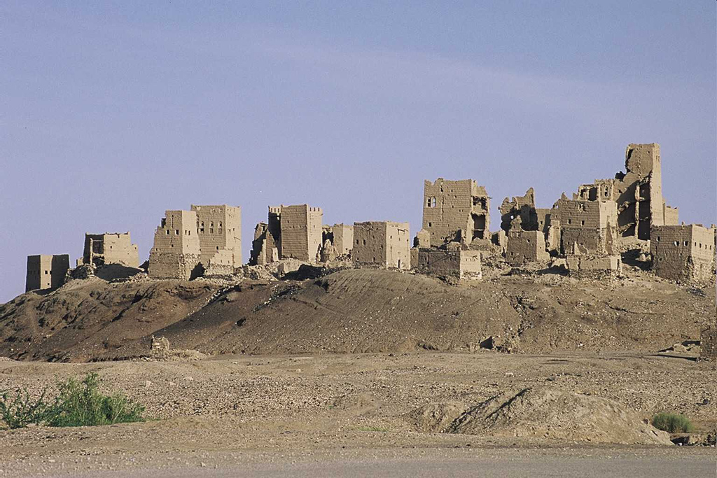 Ruins of the historic town of Barakish. It was known to the Greeks and Romans as Athlula (or Athrula).